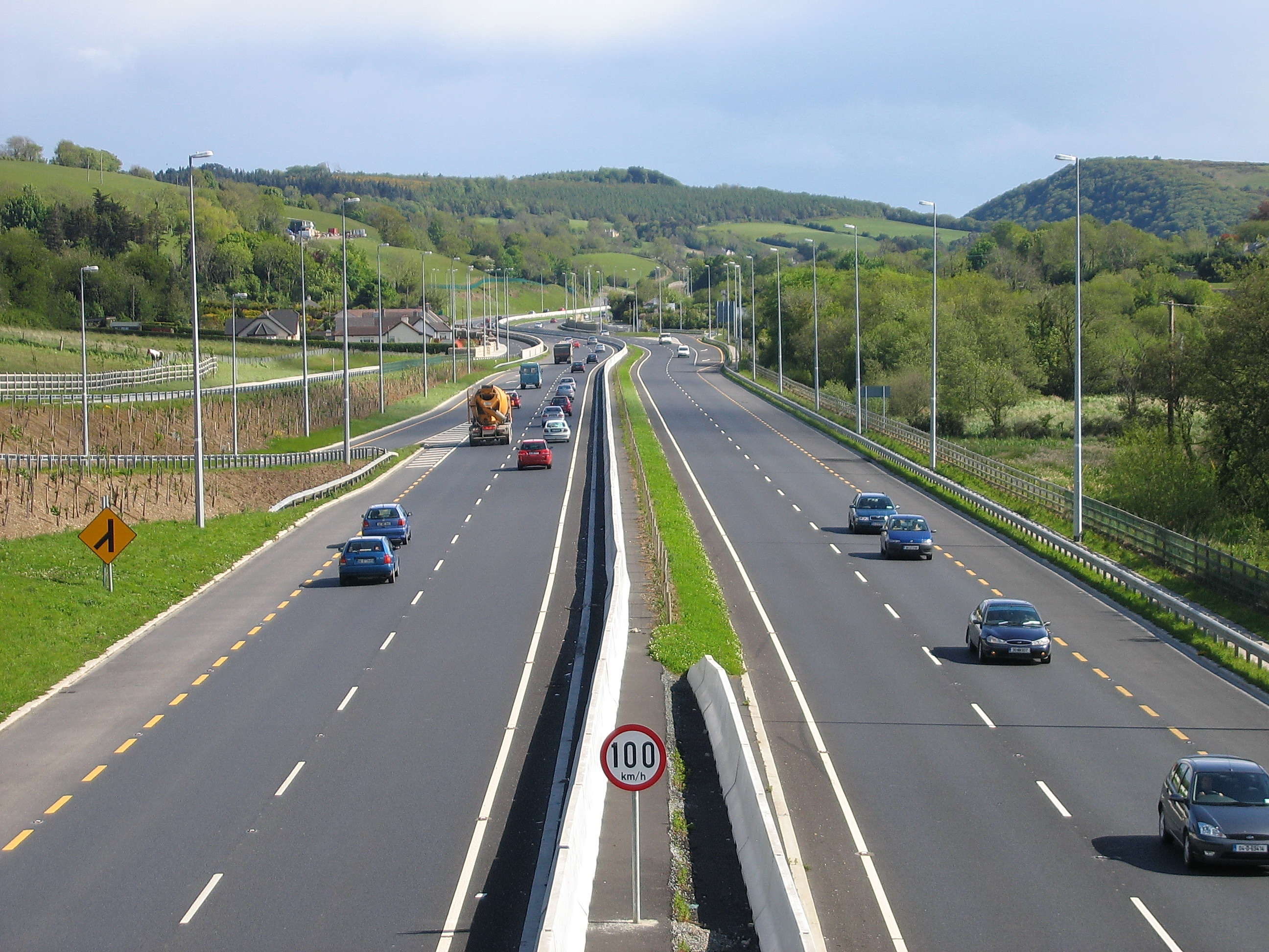 Median barrier on the N11 dual-carriageway looking south towards the Glen of the Downs in Co. Wicklow, Ireland